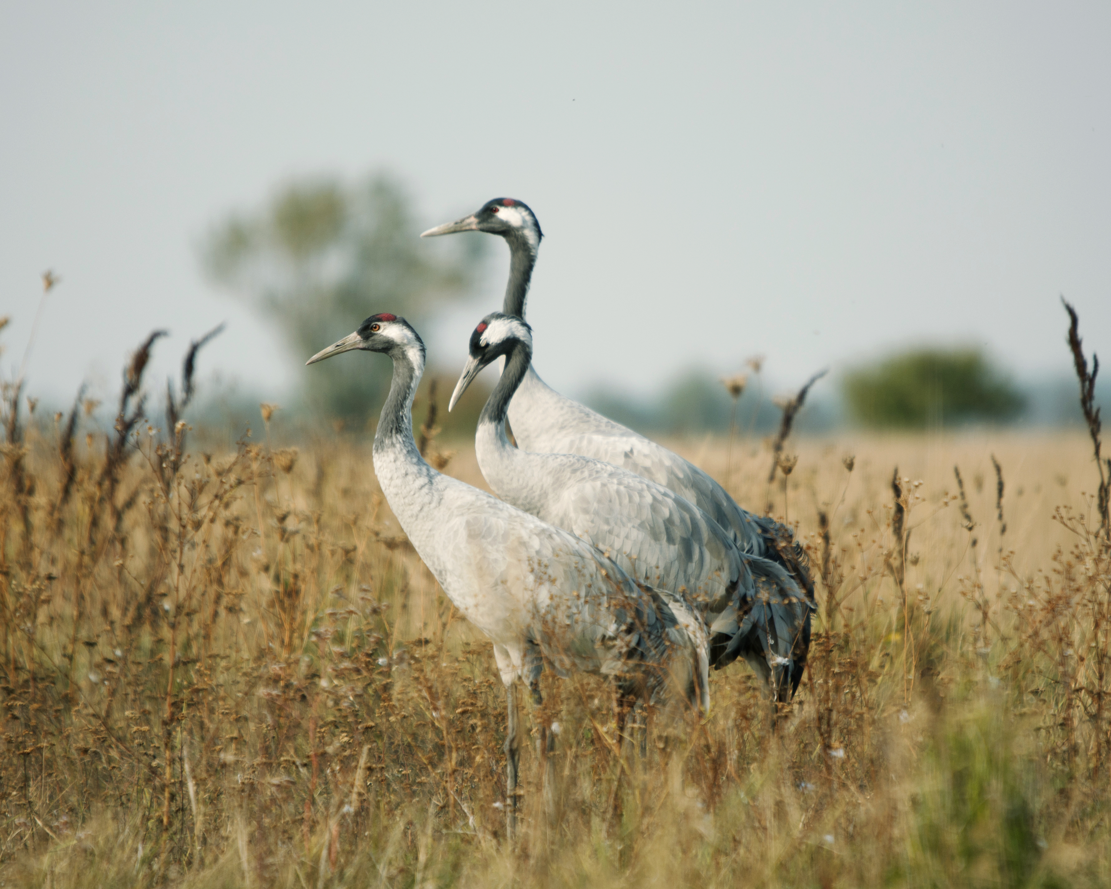 Cranes in Hortobágy National ParkNorsk bokmål: Traner i Hortobágy nasjonalpark